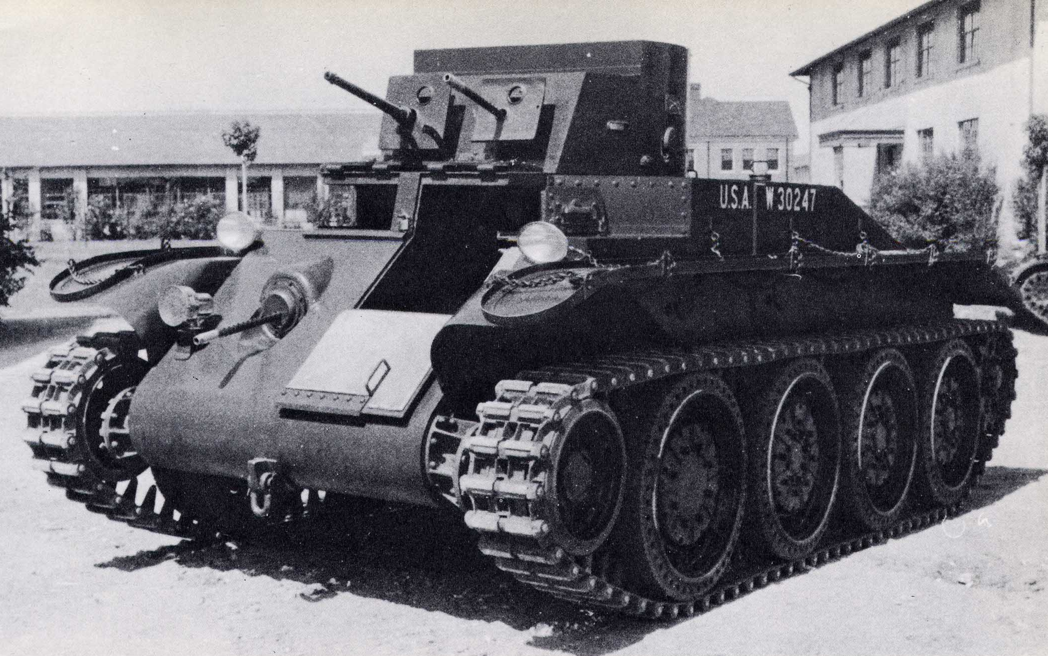 US Medium Tank T4 (M1)